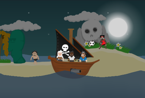 Gameplay from the upcoming Pluderland iPhone game by JohnnyTwoShoes